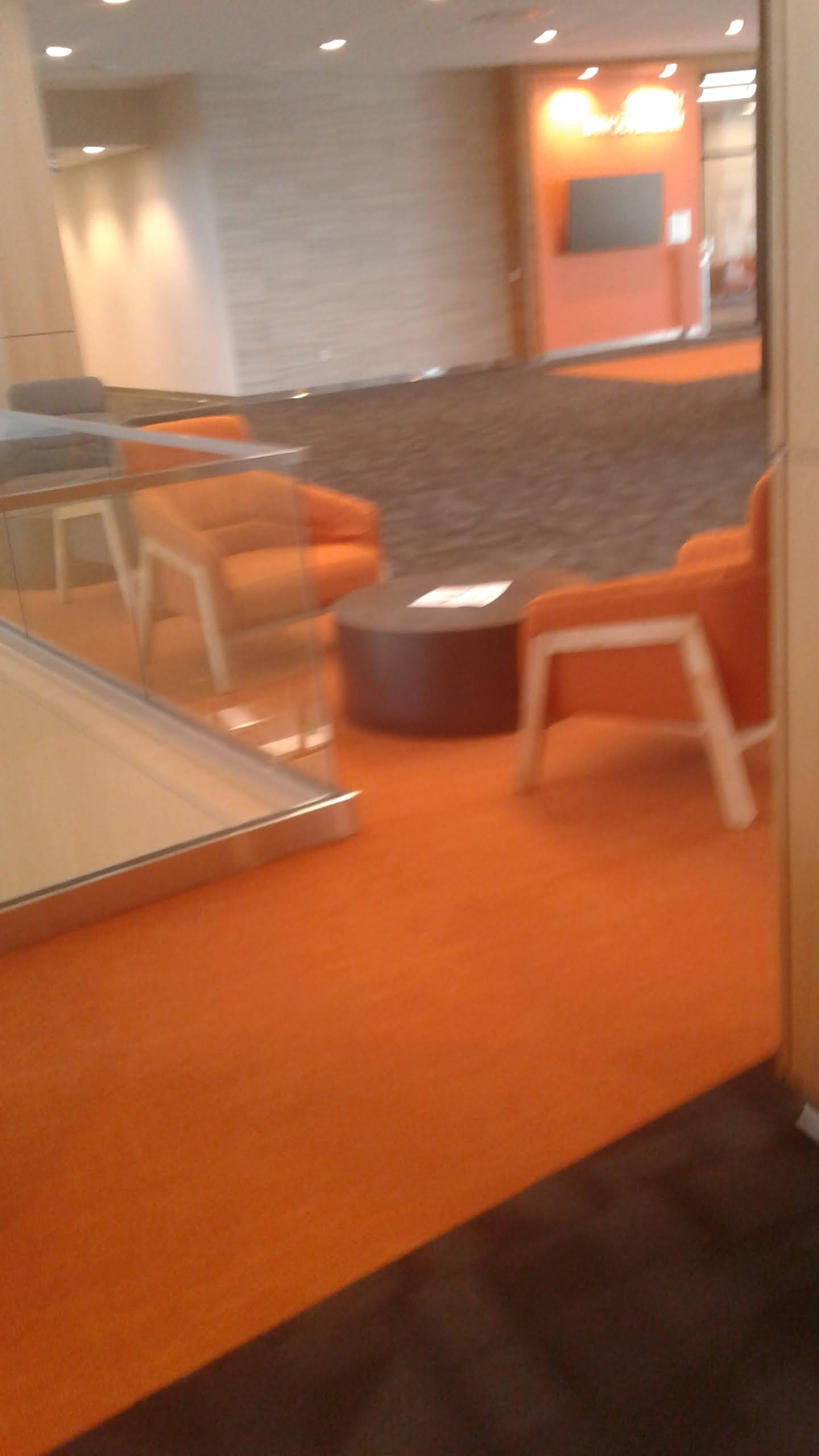 Second floor lobby for ONH SU